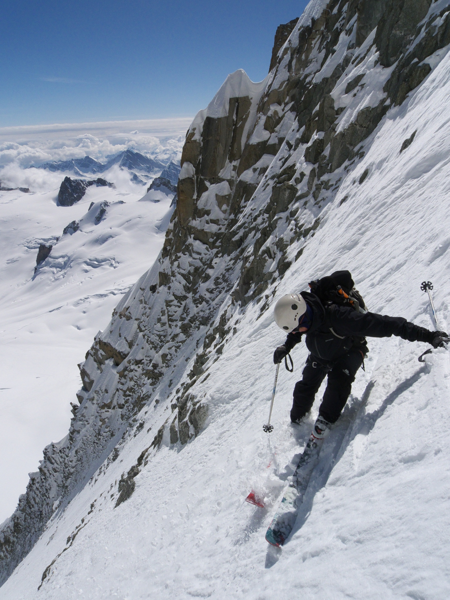 Mont Blanc du Tacul - Couloir Jager - Ski descent